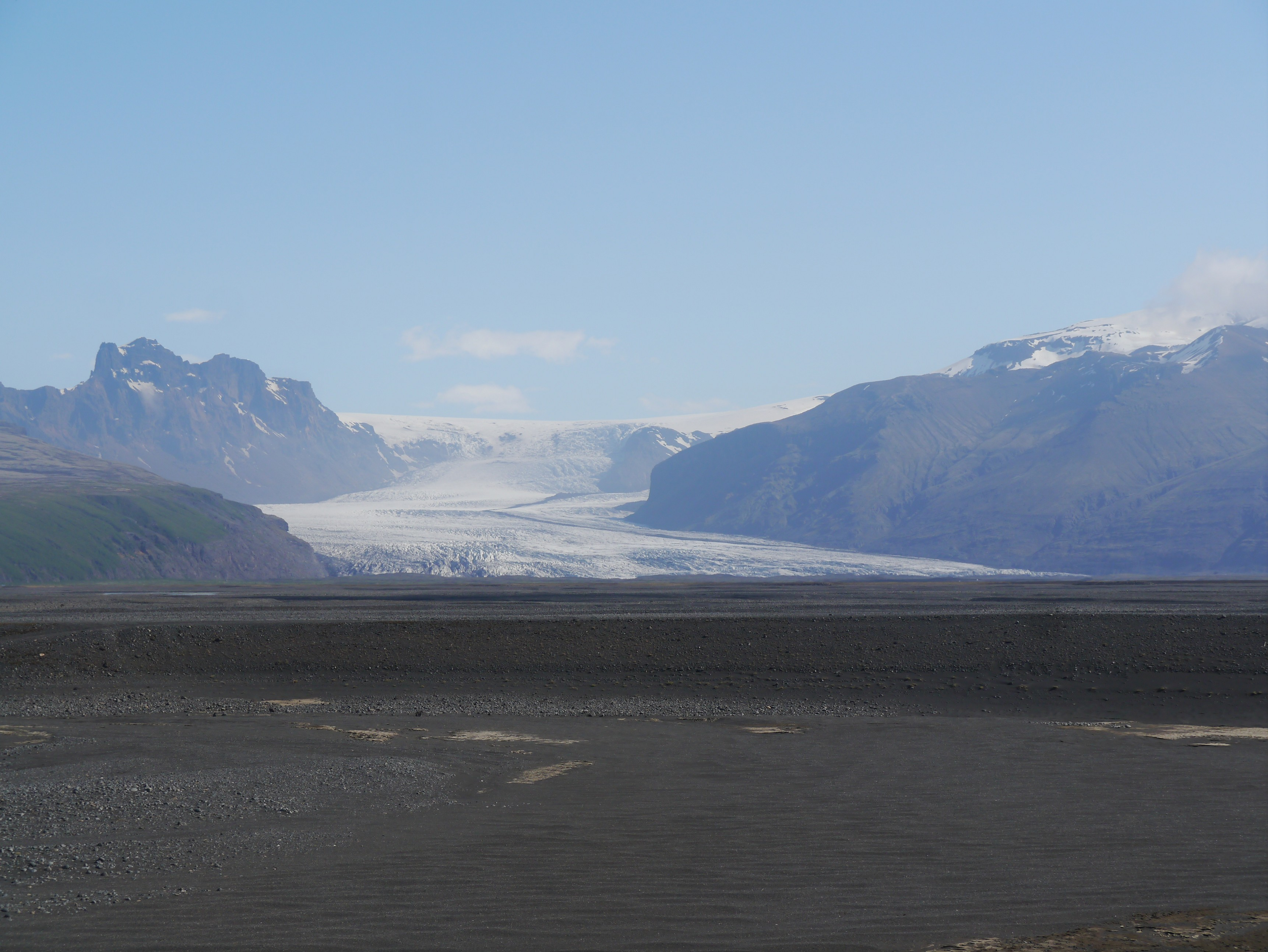 Ring road at Vatnajökull, South east Iceland